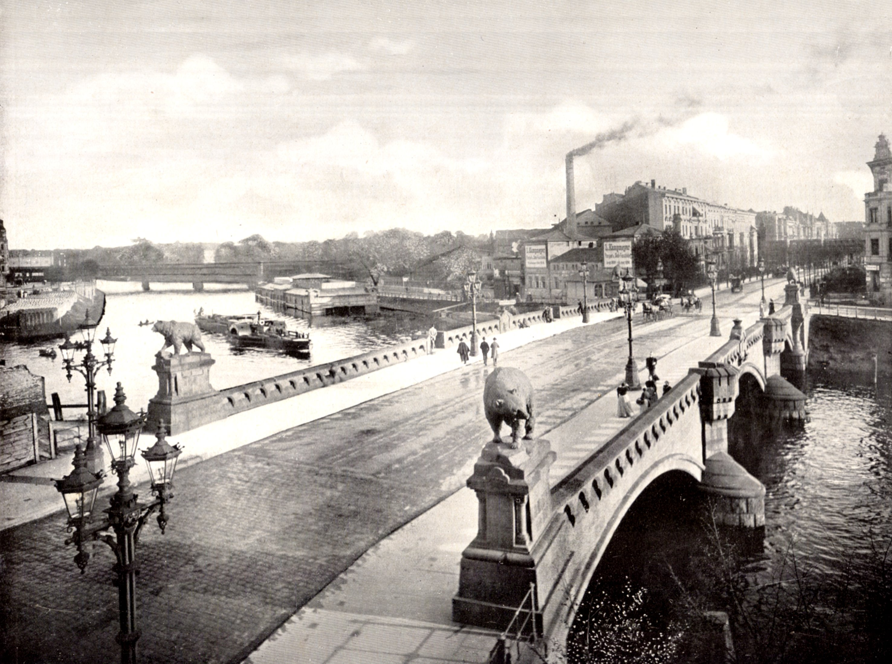 Berlin, Moabiter Brücke (Bärenbrücke) around 1900